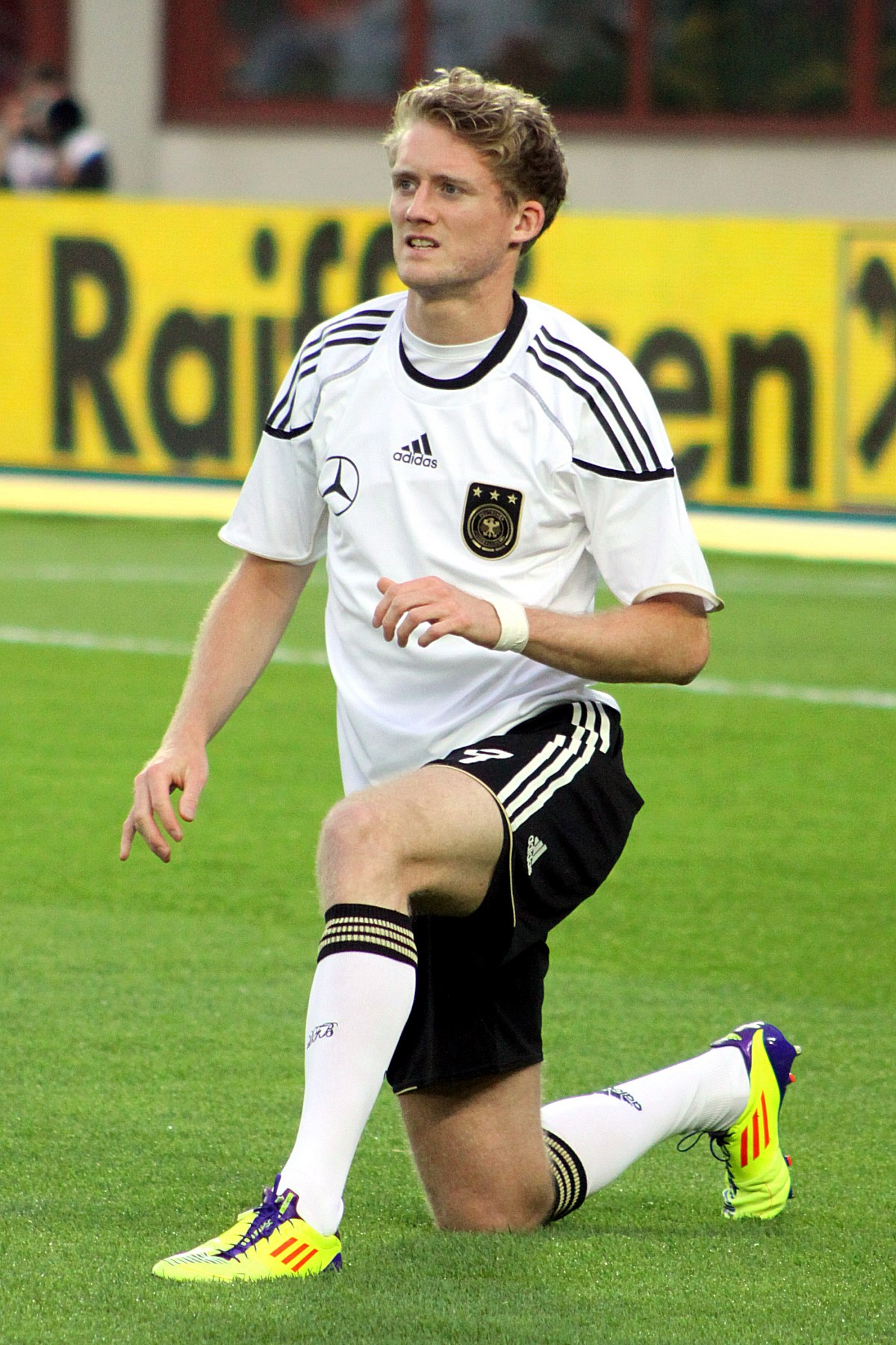 André Schürrle (Mainz 05), german national football team